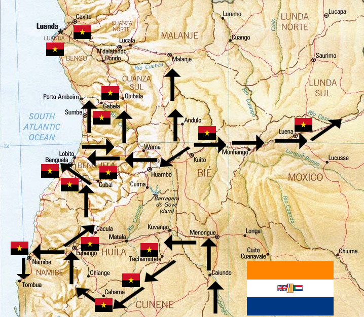 Cropped version of a CIA public domain image. Route of axis for South African armoured columns during Operation Savannah (1975-1976). Cropped for an article on Operation Savannah. Limited contextual relevance to original work.